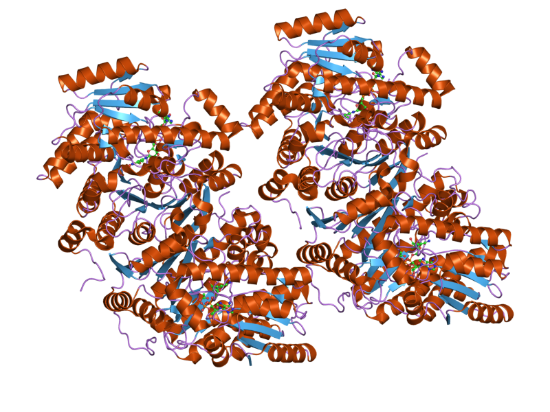 Cartoon representation of the molecular structure of protein registered with 2fkn code.